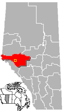 Location of Hinton, Census Division No. 14, Albera